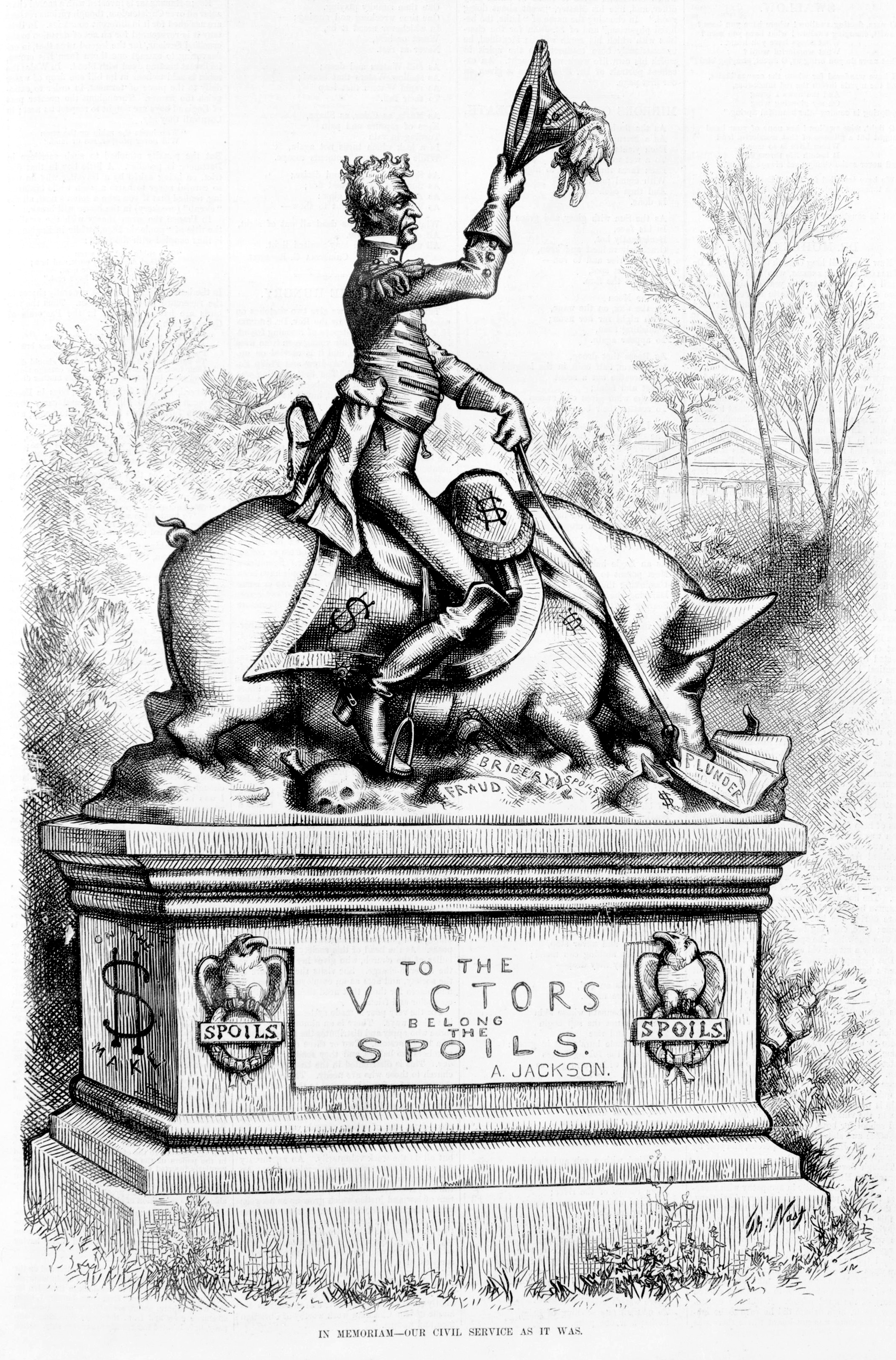 Cartoon showing statue of Andrew Jackson on a pig, which is over "fraud," "bribery," and "spoils," eating "plunder."Illus. in: Harper's weekly, 1877 April 28, p. 325.